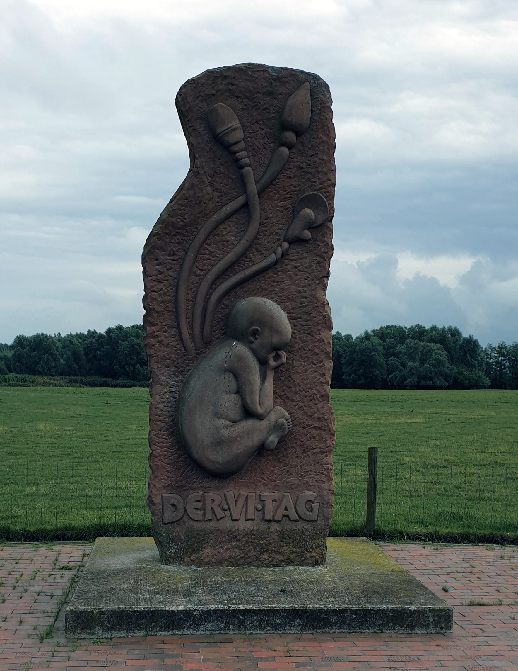 Sculpture, "'Der 6. Schöpfungstag: Die Tiere des Feldes. Der Mensch." by Norbert Pierdzig, 2000, Petershörn, Varel, Germany